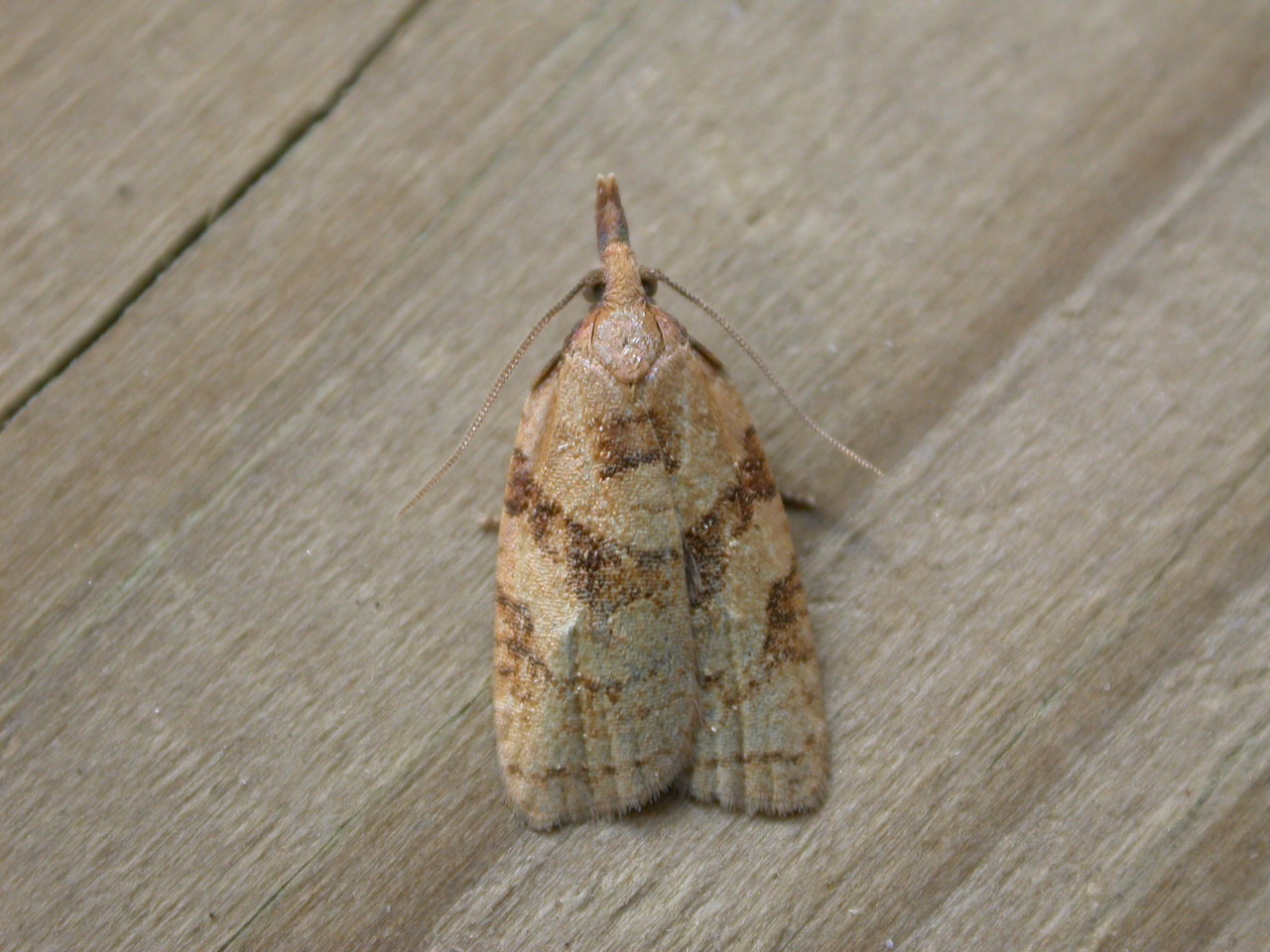 Sparganothis pilleriana, Gastes, Landes, SW France, 5/6 July 2003